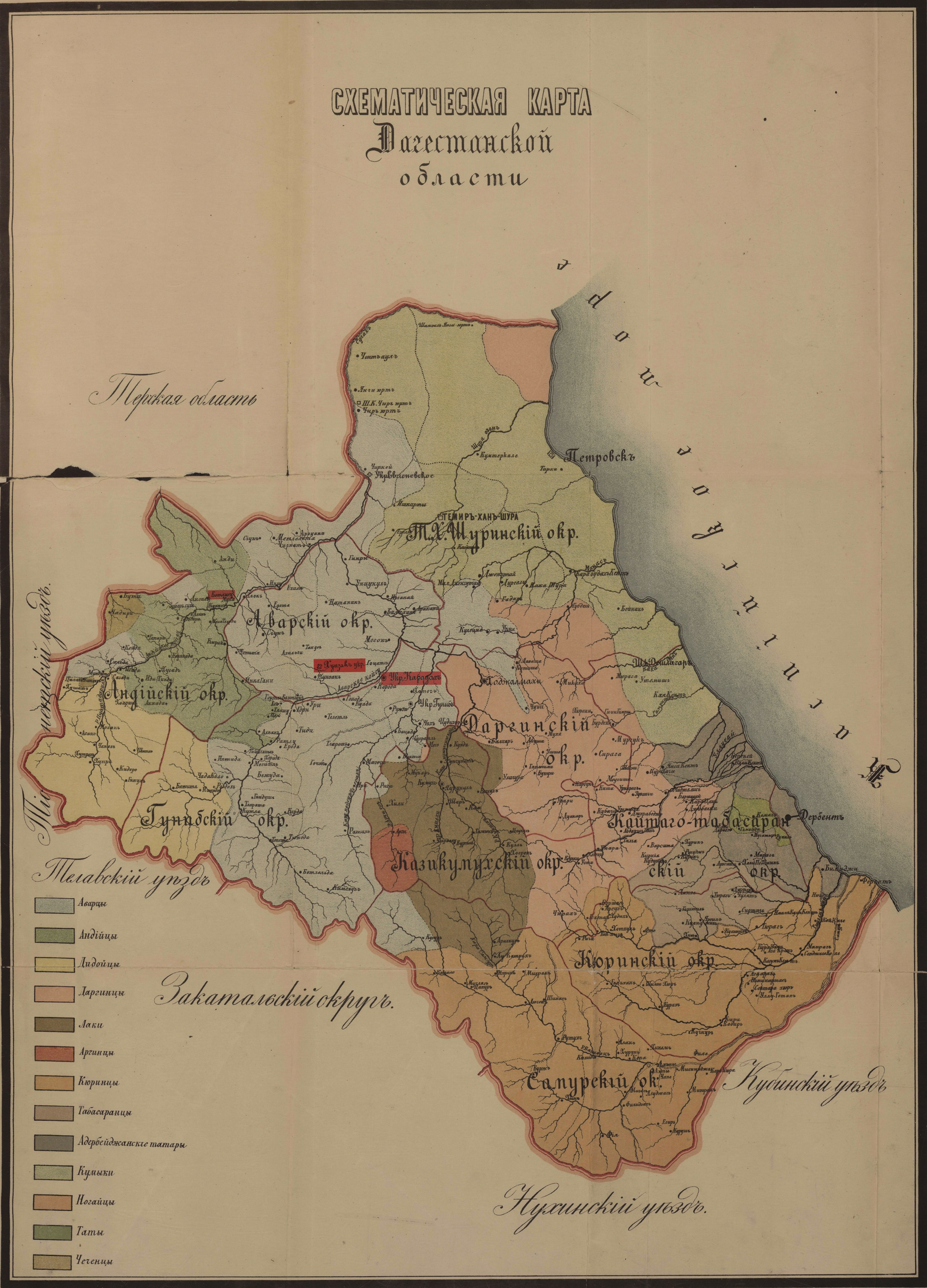 Sketch map of Daghestan Region.